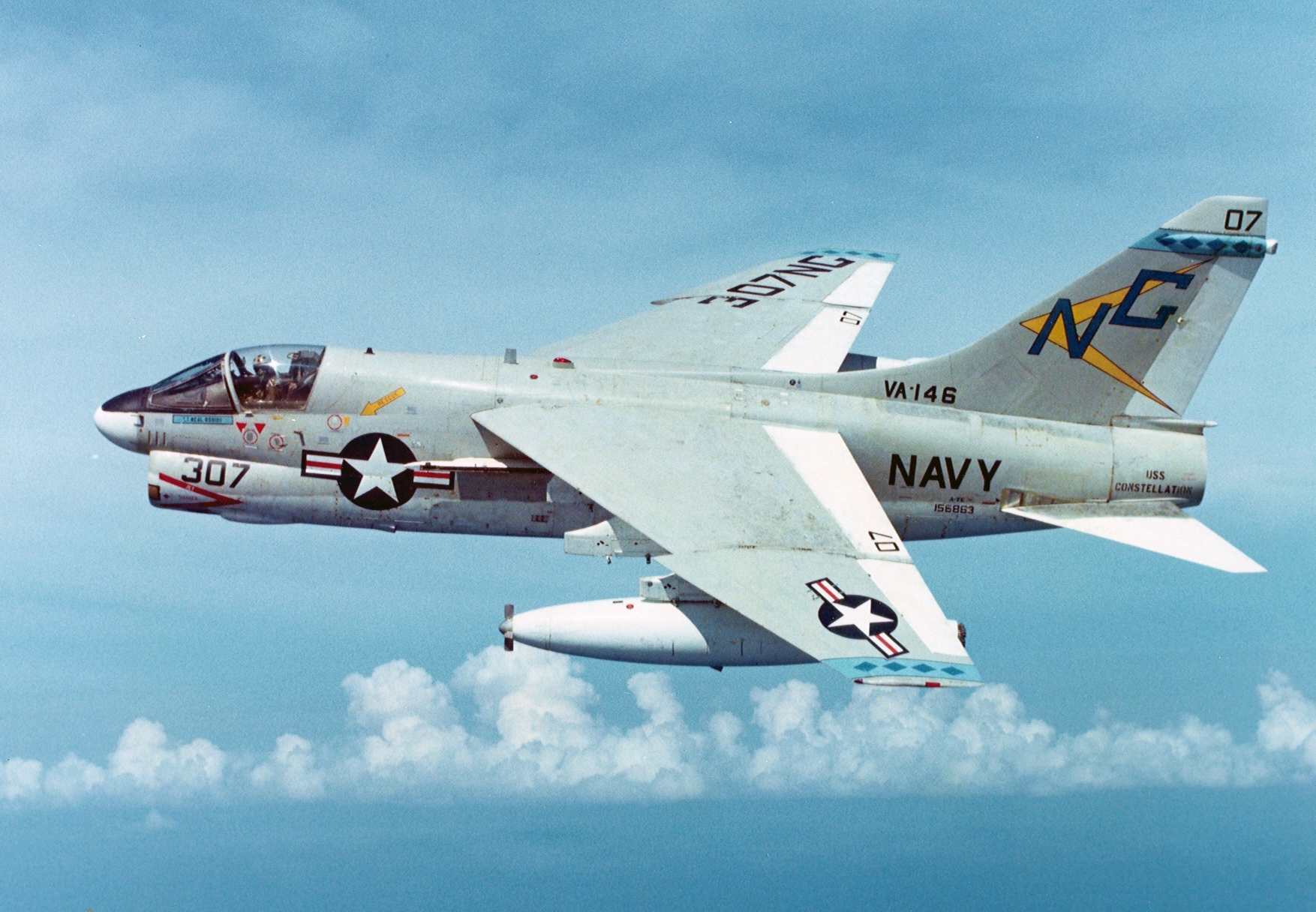 A U.S. Navy Ling-Temco-Vought A-7E-5-CV Corsair II (BuNo 156863) of Attack Squadron 146 (VA-146) "Blue Diamonds" in flight on 16 November 1974. VA-146 assigned to Attack Carrier Air Wing 9 (CVW-9) aboard the aircraft carrier USS Constellation (CVA-64) for a deployment to the Western Pacific and the Indian Ocean from 21 June to 23 December 1974.